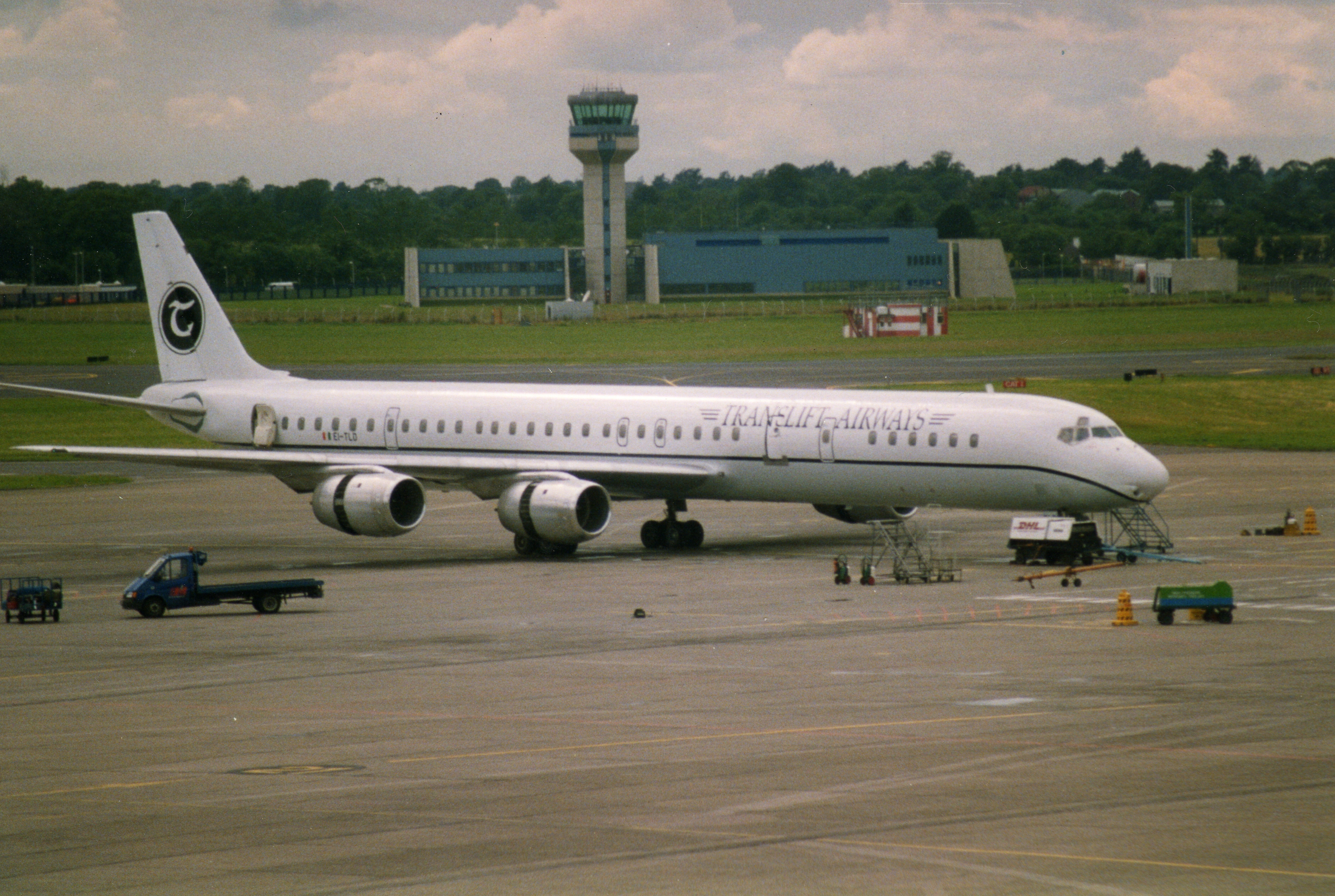 Translift Airways (EI-TLD) Douglas DC-8-71 aircraft, Dublin Airport, Dublin, Republic of Ireland, July 1993